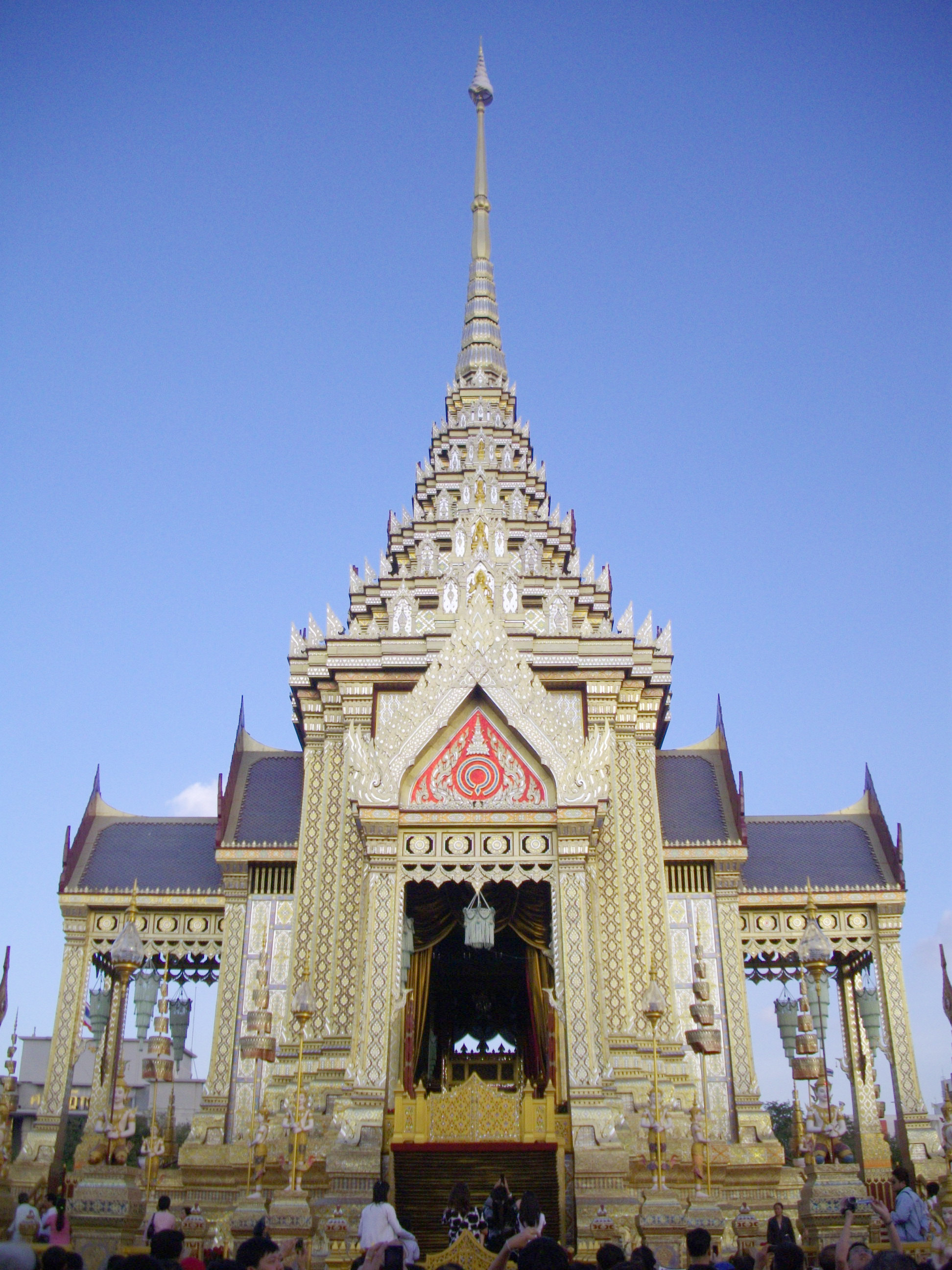 The Royal Crematorium ("Phra Meru") at Sanam Luang, view from west side. This building was used in the Royal Cremation of Her Royal Highness Princess Galyani Vadhana, King Rama IX's Sister, in 15 November 2008.